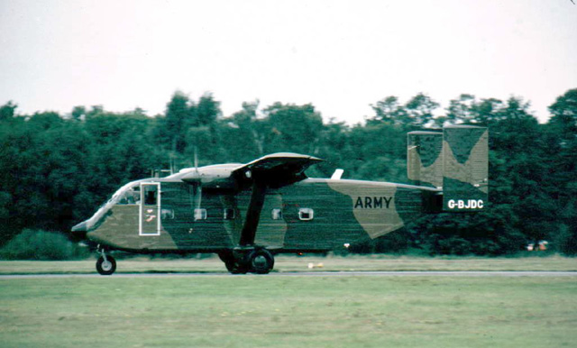 Short Skyvan (G-BJDC) Military Demonstrator at Farnborough Air Show